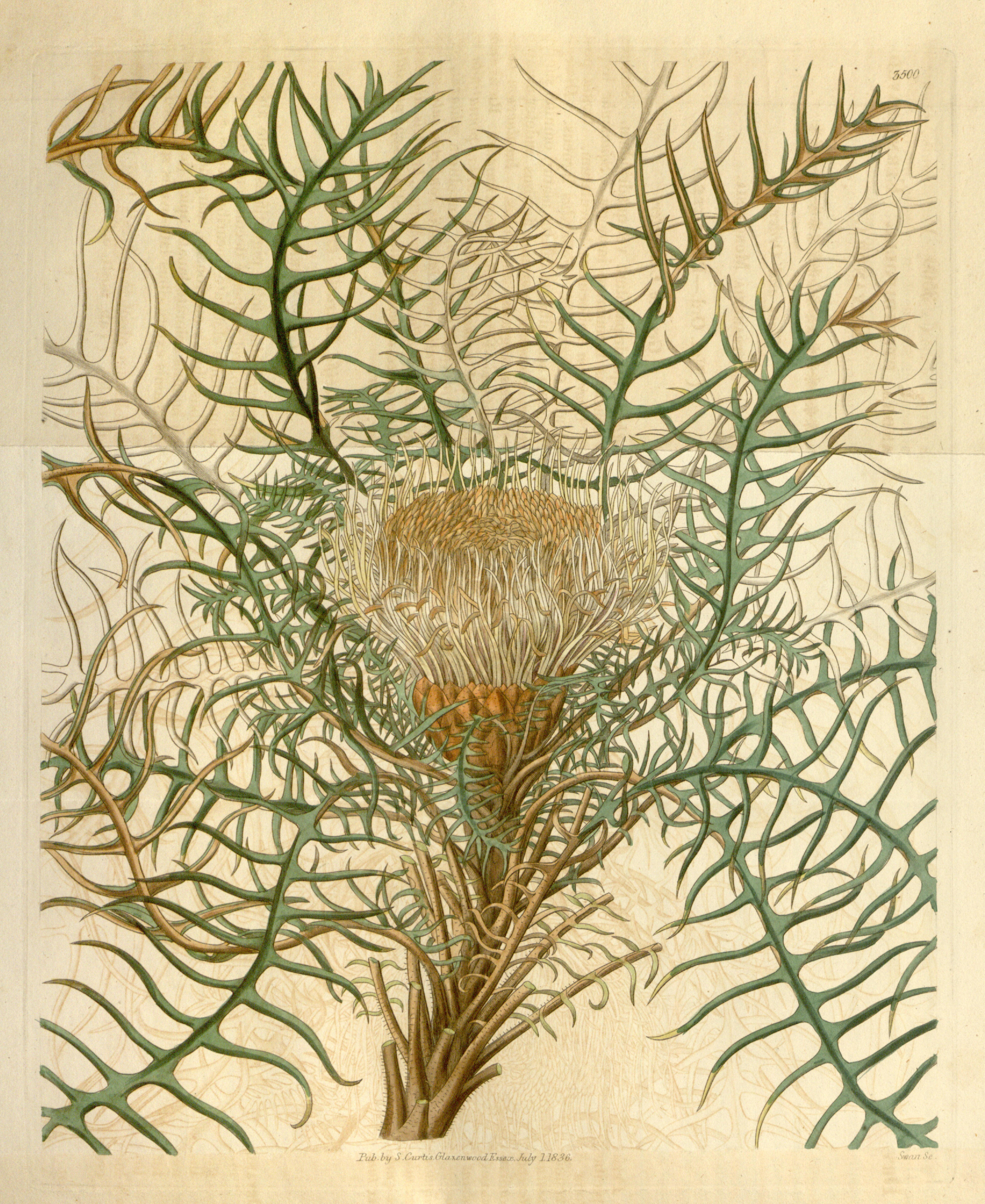 This is a scan of tab 3500 Dryandra pteridifolia, a species now known as Banksia pteridifolia (Tangled Honeypot). The image has been rotated.